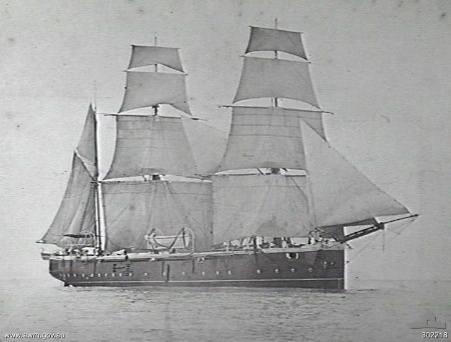 AWM caption : "STARBOARD SIDE VIEW OF THE SCREW SLOOP HMS MIRANDA WITH ALL SAIL SET. NOTE THE GUNPORT UNDER THE FORECASTLE FOR HER FORWARD 64 POUNDER CHASE GUN."